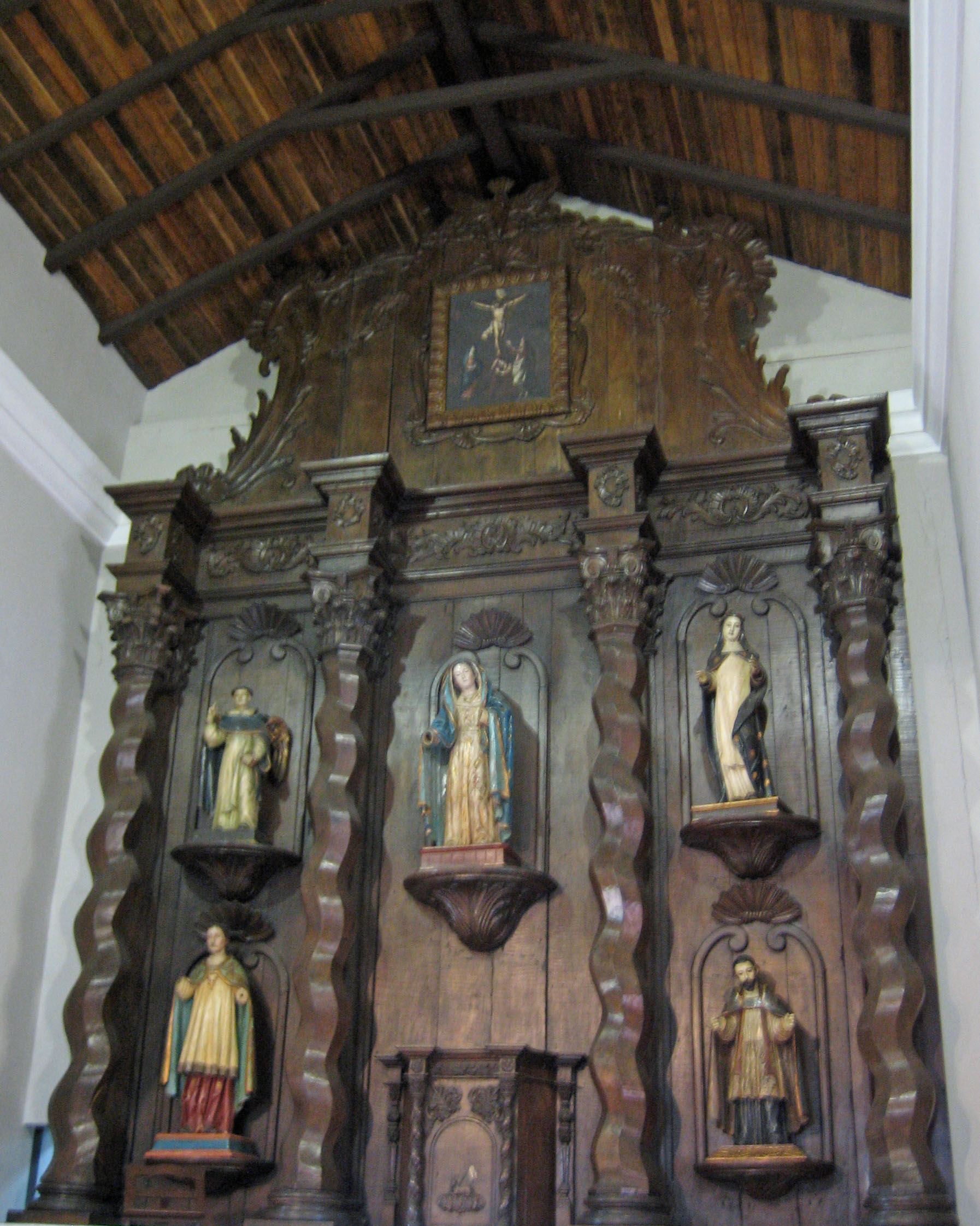 Altar barroco. / Porta Coeli Church and Religious Museum. / Built in 1606 the convento is one of the oldest church structures of the Americas. It was restored by the Institute of Puerto Rican Culture and now serves as a museum of religious art from the 18th and 19th centuries, including this massive baroque altar.